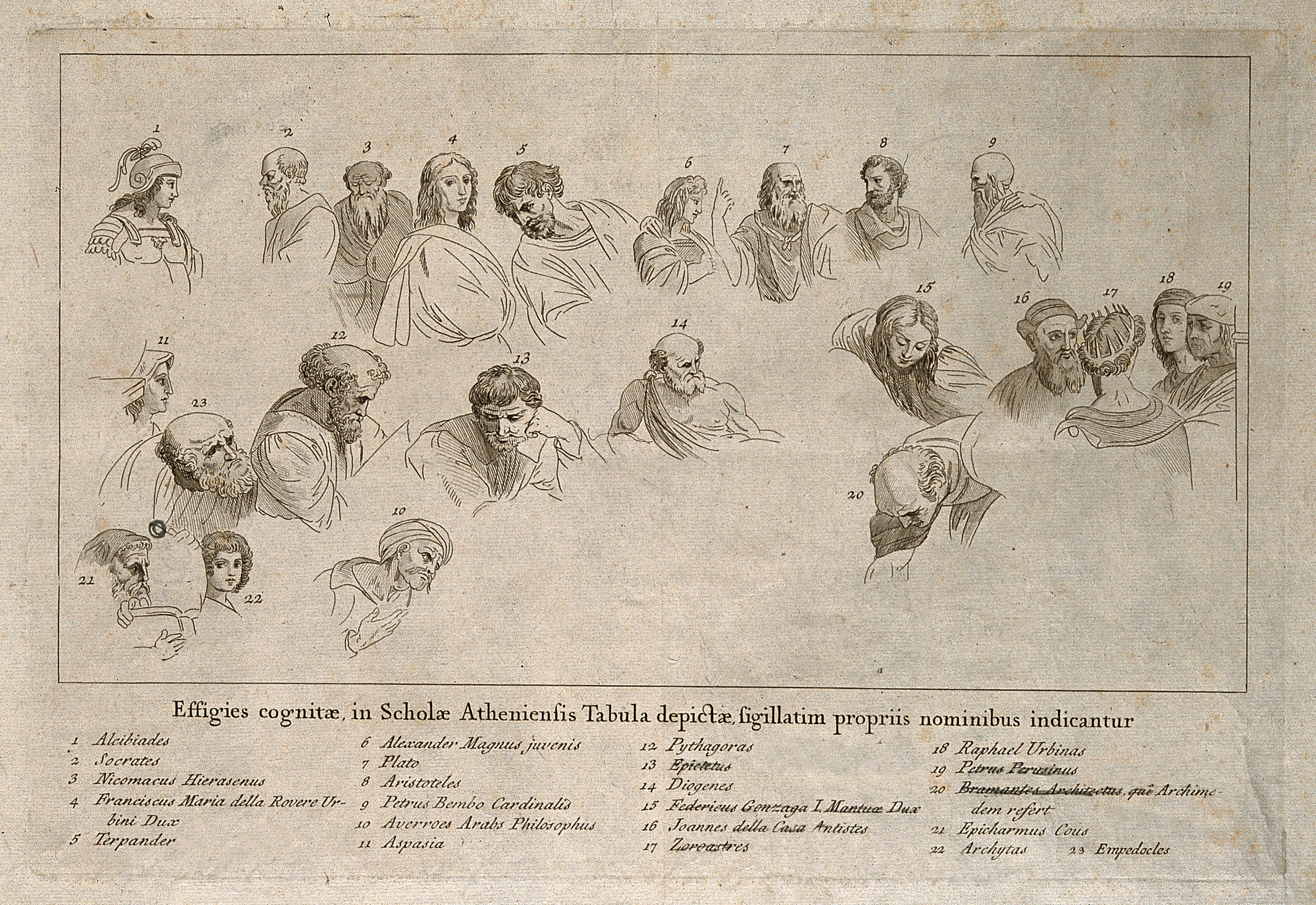 The School of Athens: a key to the figures in the composition. Engraving by G. Volpato, after Raphael. Iconographic Collections Keywords: Raphael; Empedocles; Zoroaster; Heraclitus; Ptolemy; Leonardo; Plato; Diogenes Cynicus; Averroës; Socrates; Giovanni Volpato; Aristotle; Michelangelo Buonarotti; Pythagoras; Epicurus; Donato Bramante